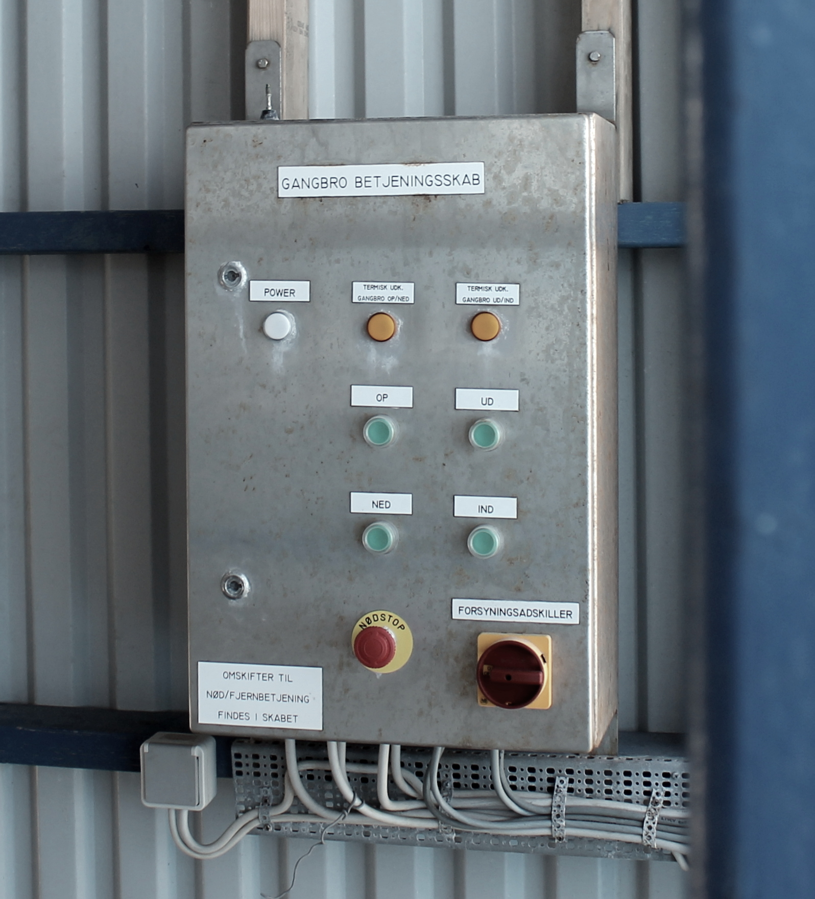 A control panel